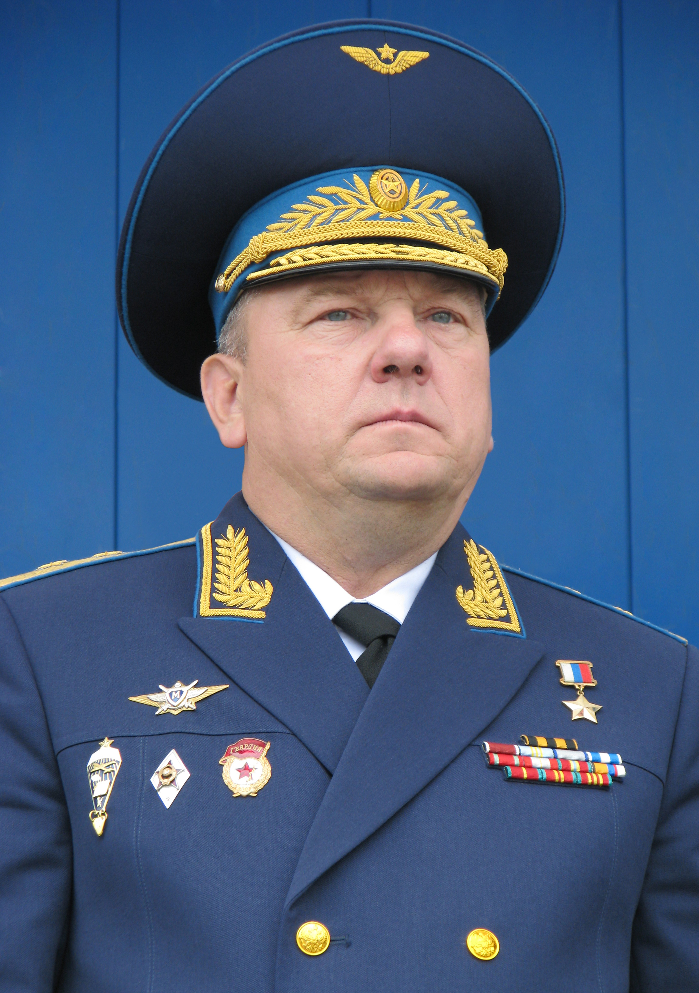 Russian Airborne Troops Commander-in-Chief, Lt. Gen. Vladimir Shamanov attending military parade.